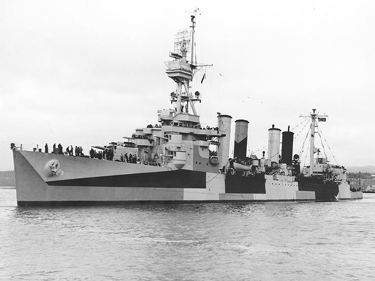 Template:The U.S. Navy Omaha -class light cruiser USS Richmond (CL-9) off the Puget Sound Navy Yard, Bremerton, Washington (USA) on 24 June 1944. Her camouflage is measure 32, design 3d.